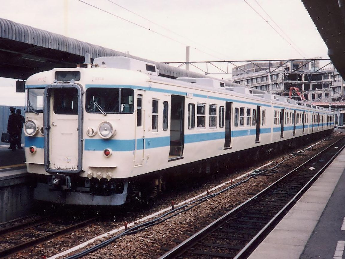 Shikoku Railway Company EMU Series111